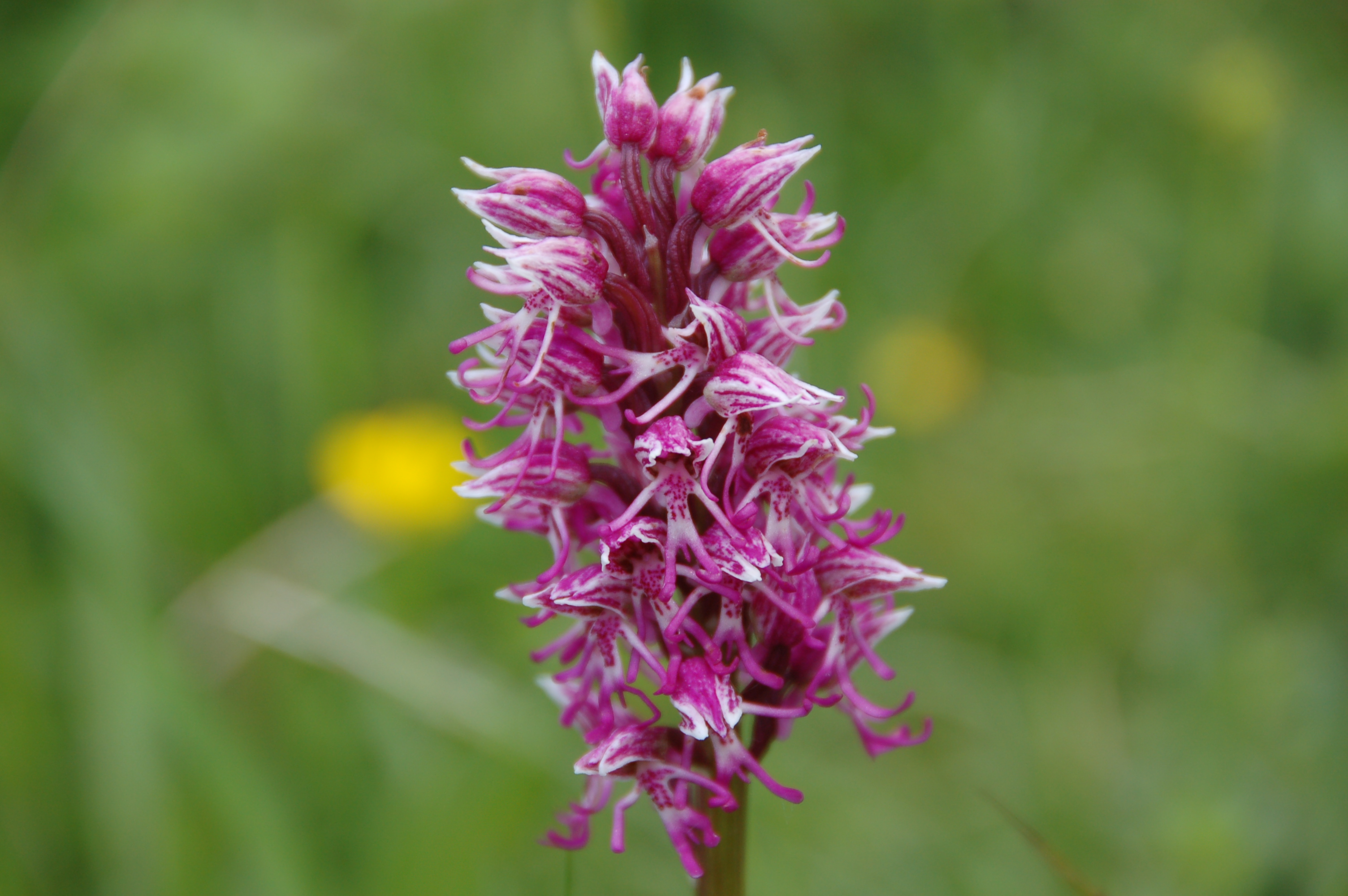 Description: Monkey Orchid at Park Gate Down, , Source: self made, Date: 29th May 2007